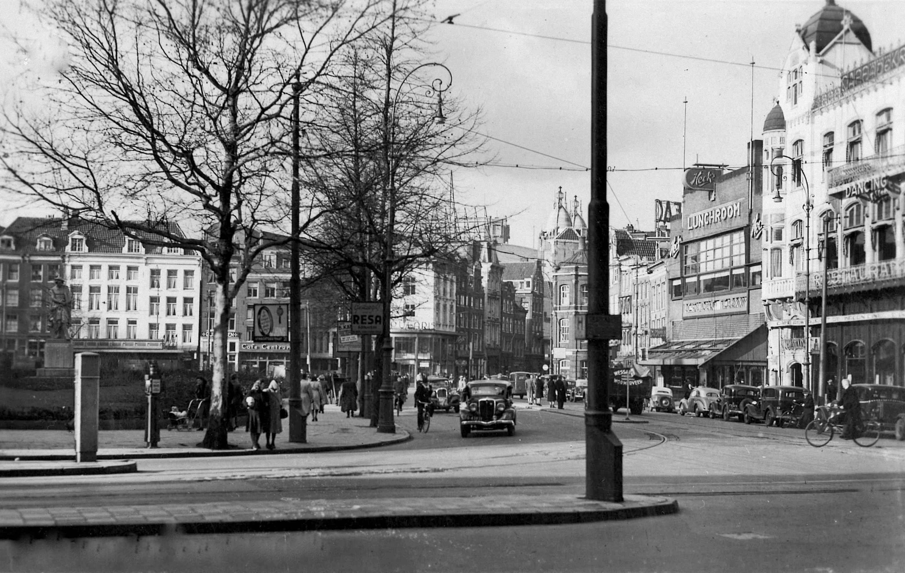 Rembrandtplein in Amsterdam, circa 1950, scanned from original photograph